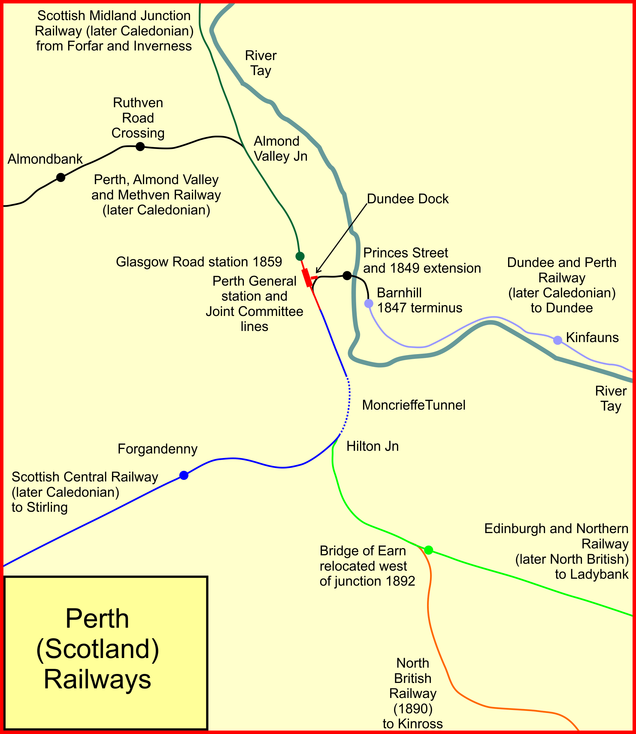 The railways of Perth, Scotland